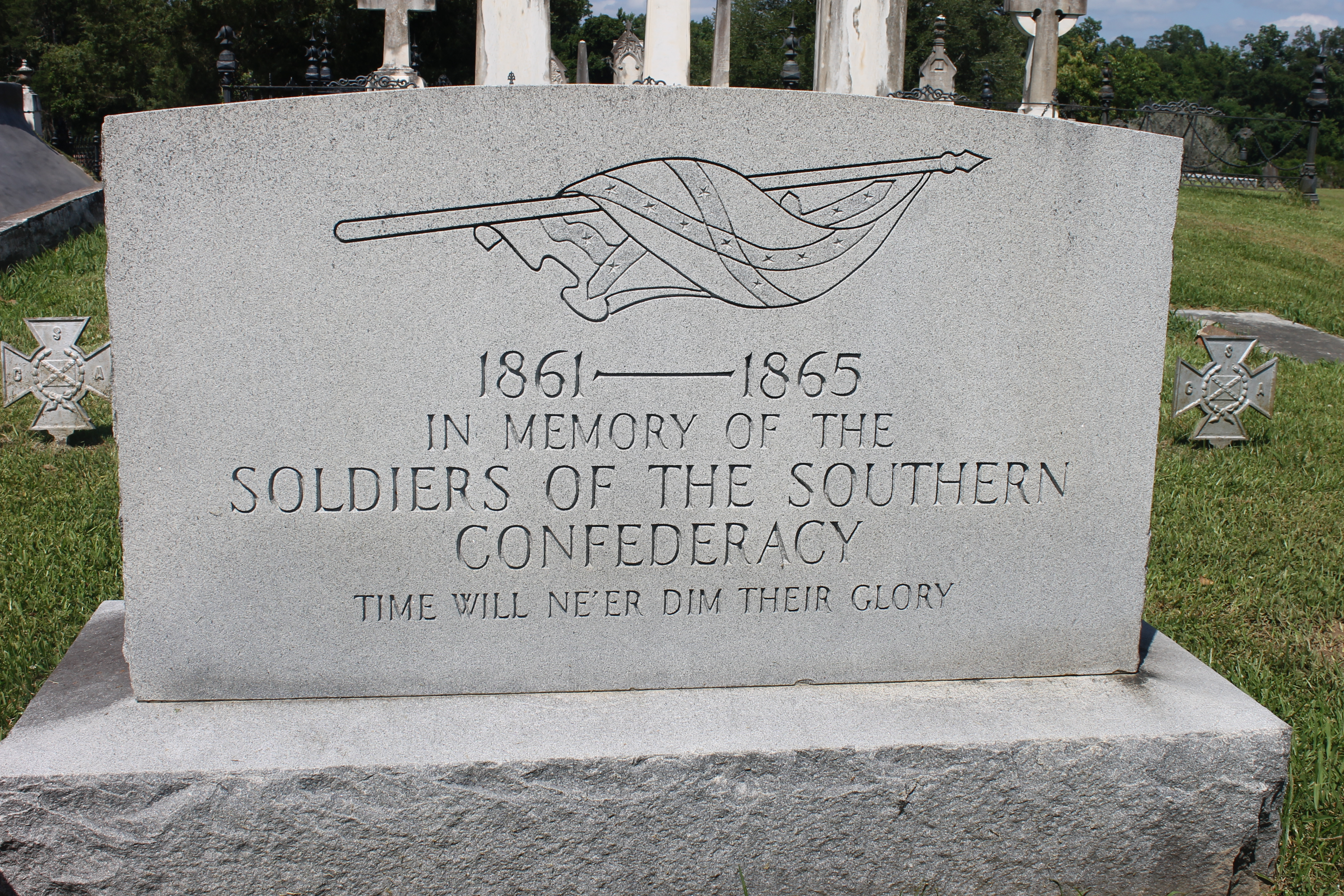 Confederate soldiers memorial at Natchez, MS, City Cemetery